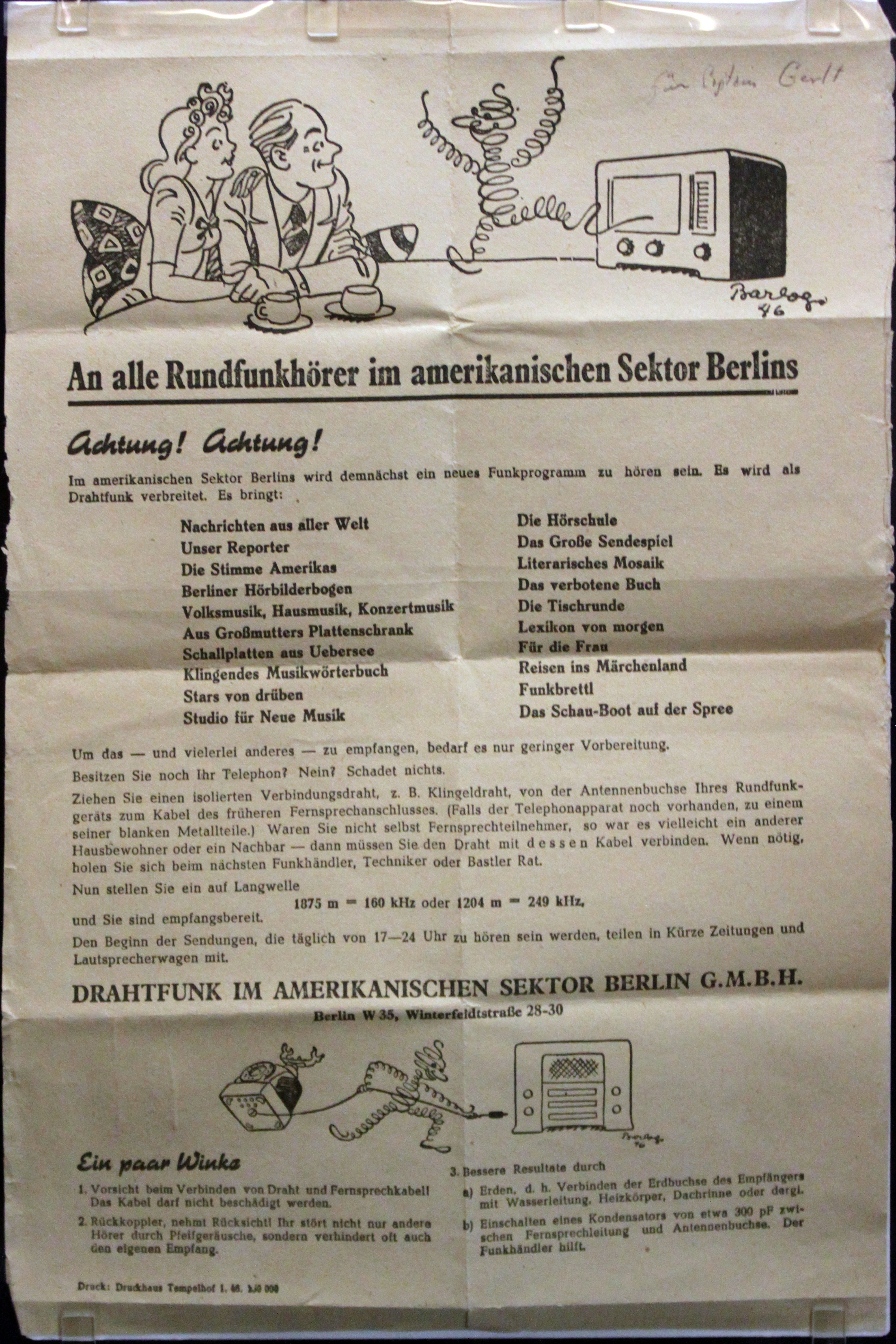 AlliedMuseum Berlin: Announcement of a new radio station (RIAS)